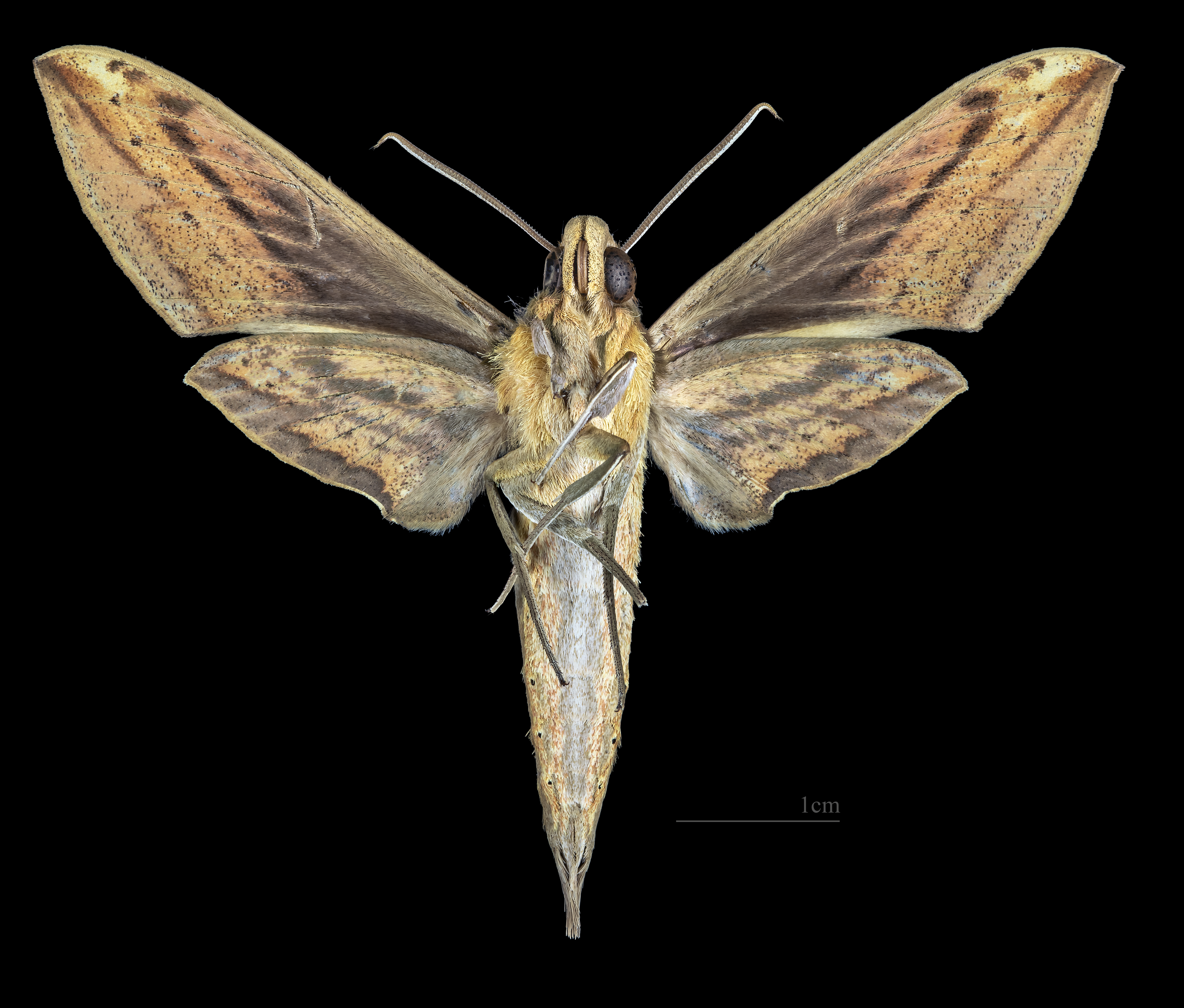 Xylophanes indistincta - △ Ventral side Collection of the Mathematician Laurent Schwartz